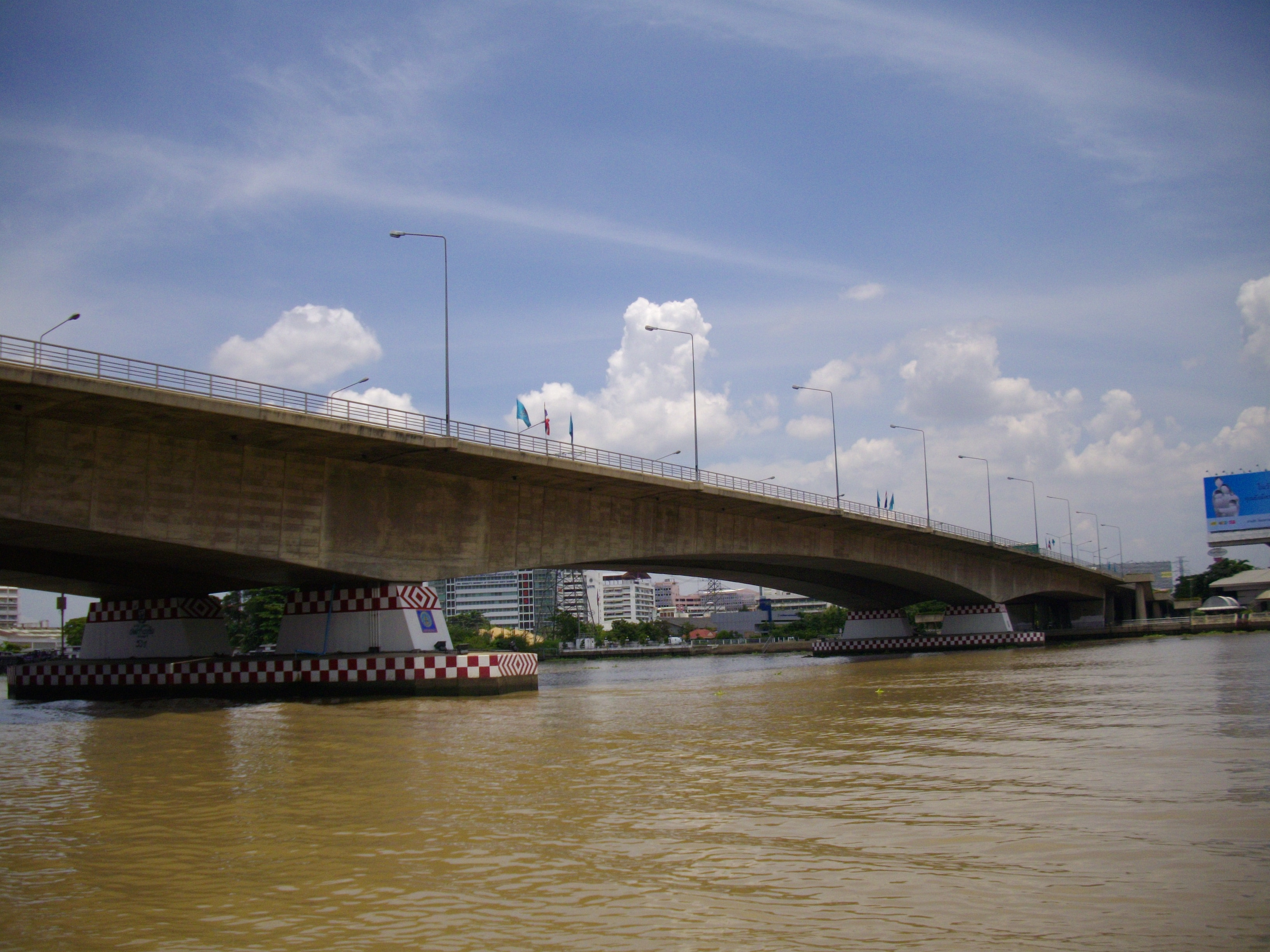 Rama VII Bridge, View from the west bank of Chao Phraya River.